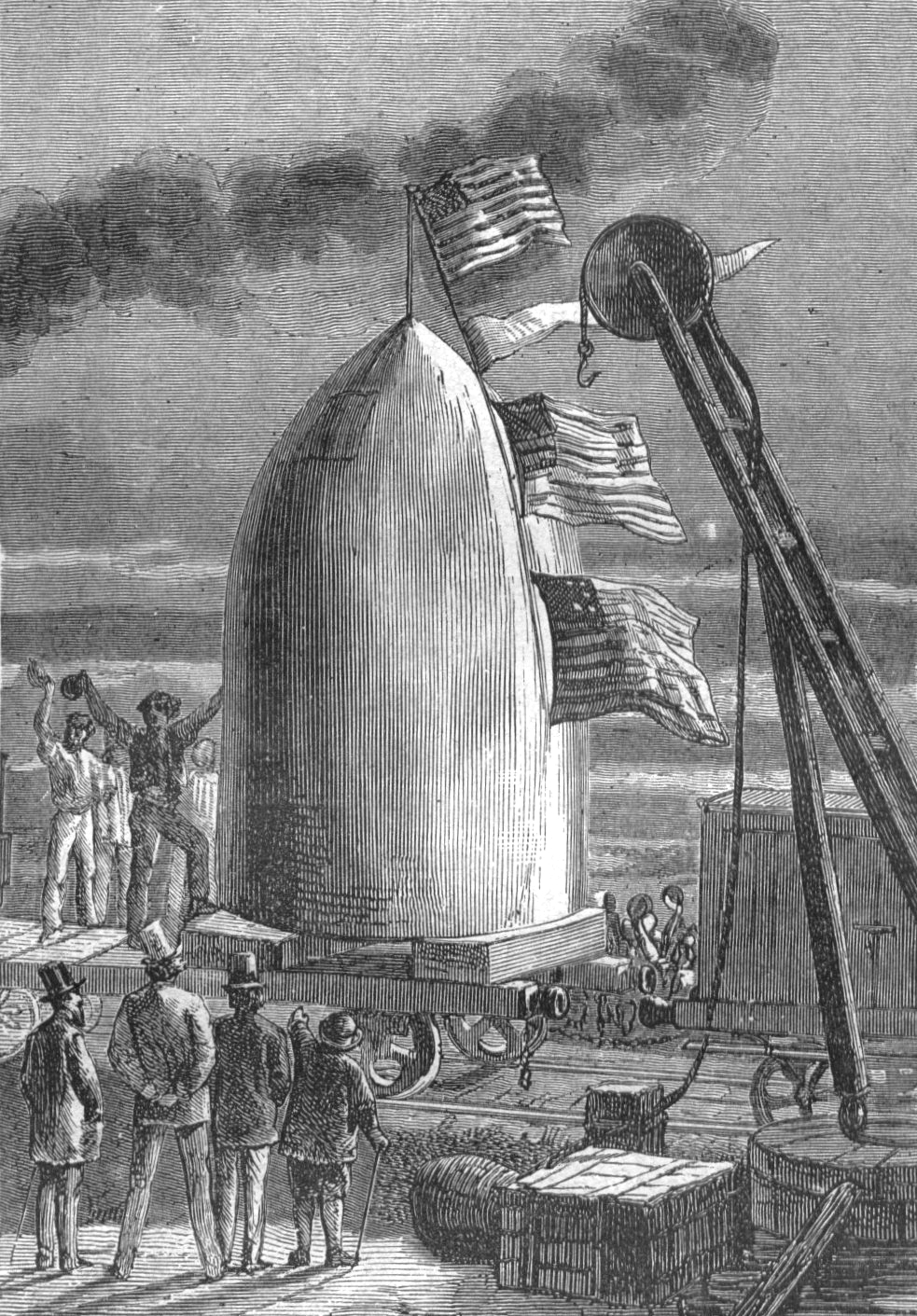 An illustration from the novel "From the Earth to the Moon" by Jules Verne drawn by Henri de Montaut.